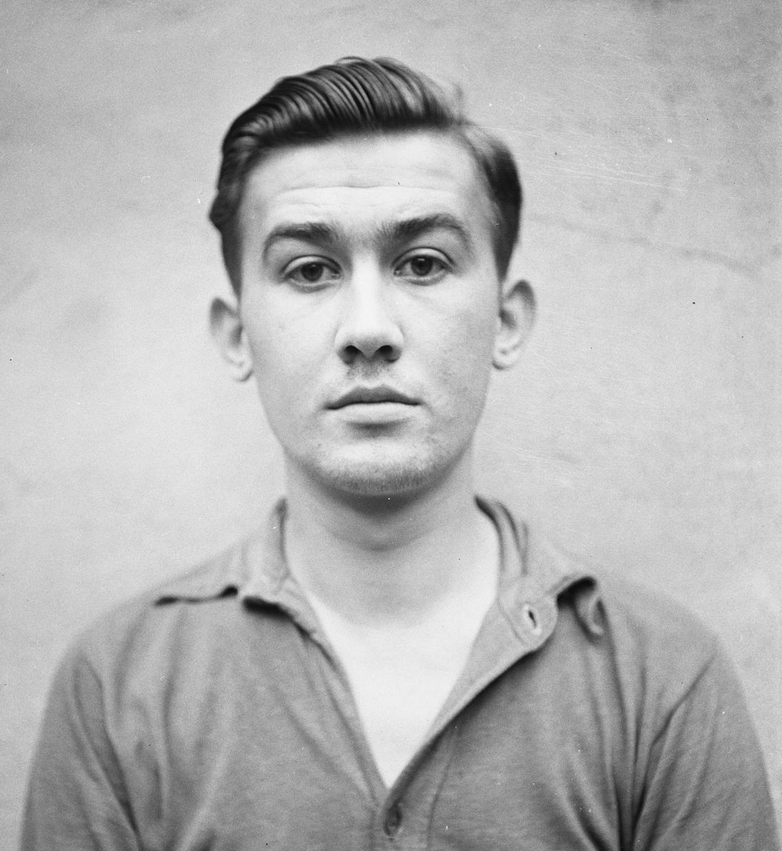 Wilhelm Dorr: sentenced to death.